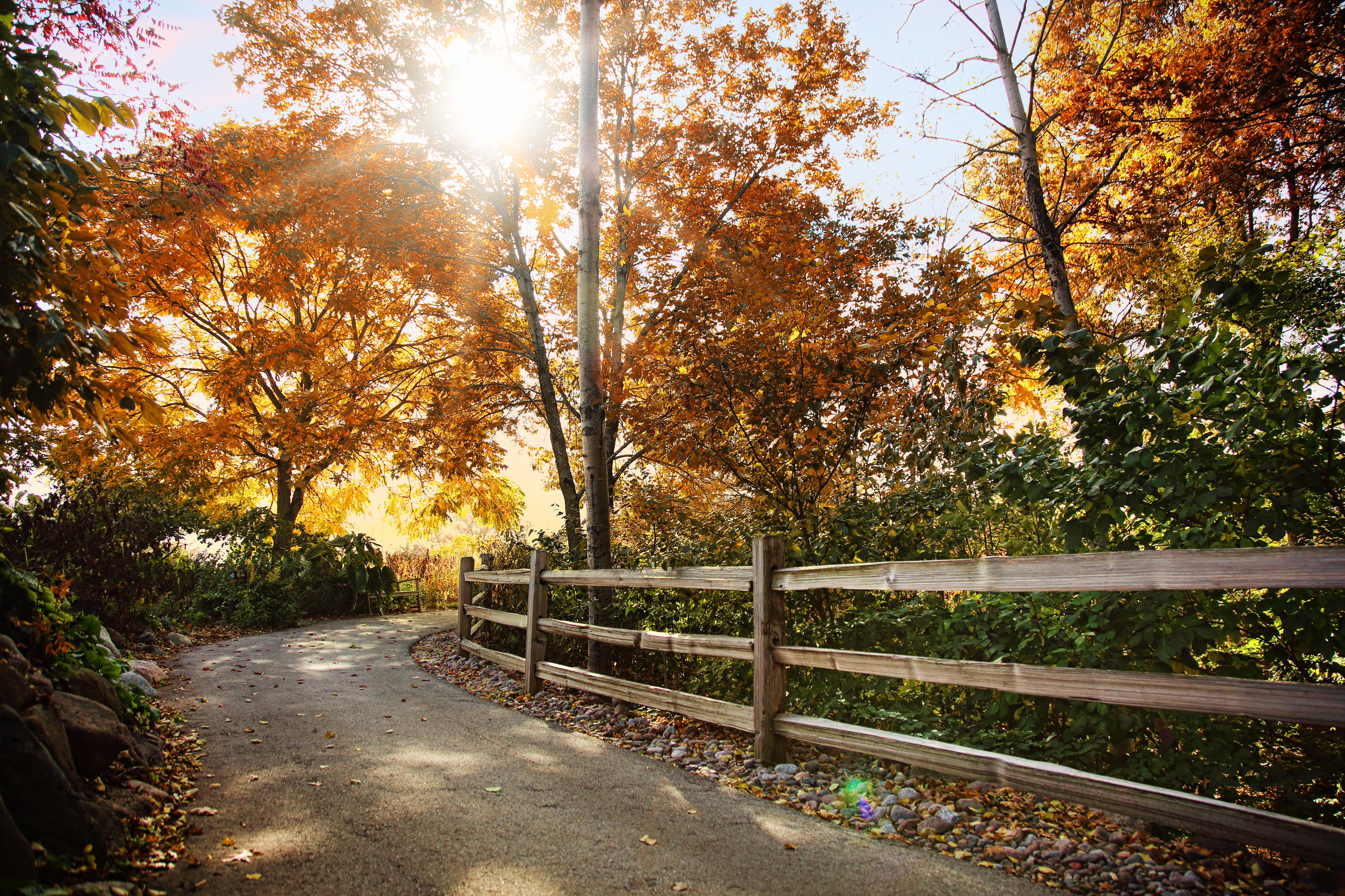 Green Bay Botanical Garden fence in autumn